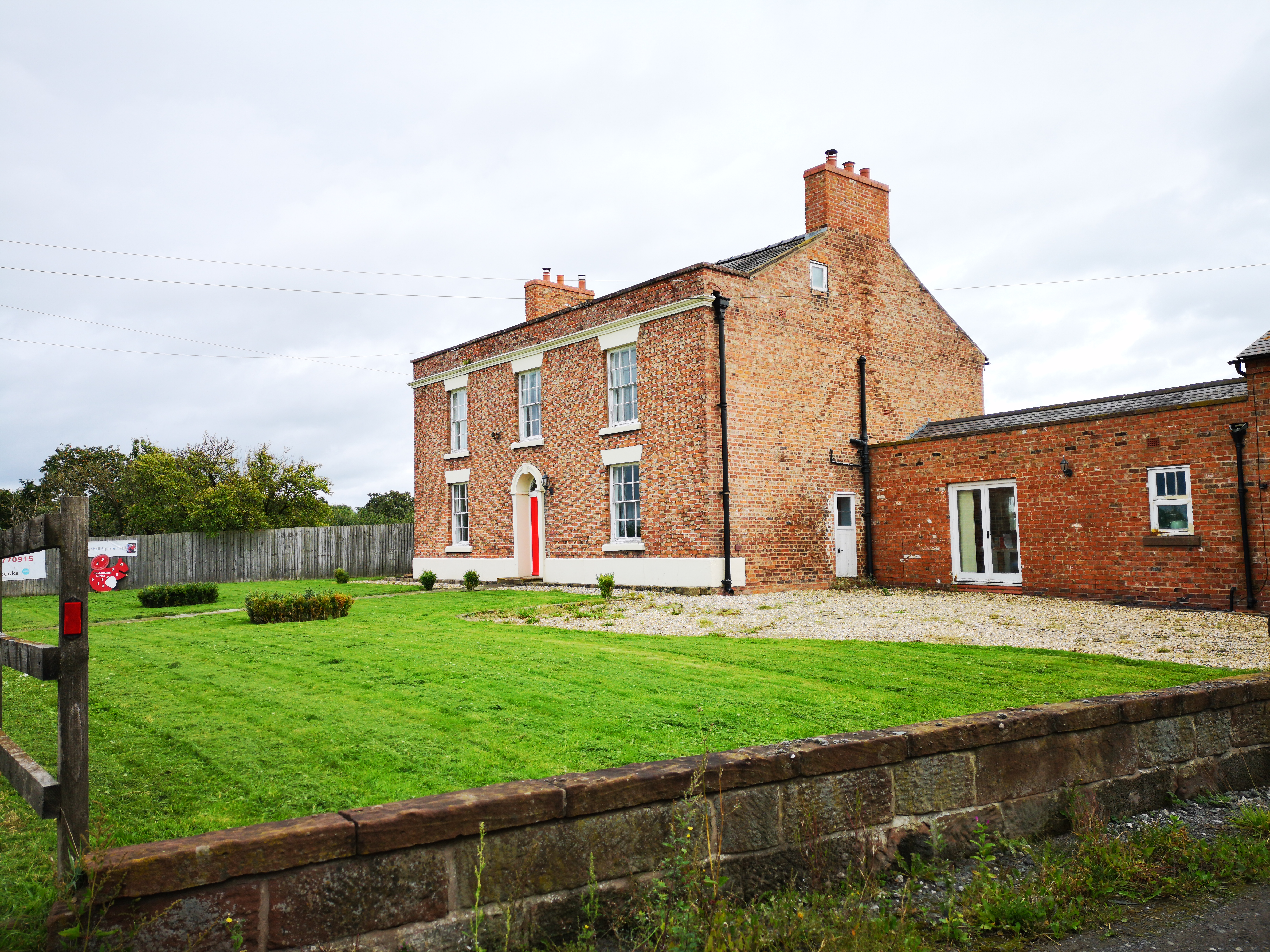 Milton Green Farmhouse Wikidata has entry Q26524016 with data related to this item.